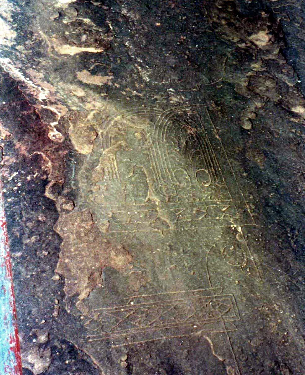 Architectural Drawings. 11th century. Bhojpur, Madhya Pradesh Accurate drawings for the temple were inscribed into the surrounding stone. Craftsmen would then use these drawings to transfer the correct proportions of the temple and its decoration.